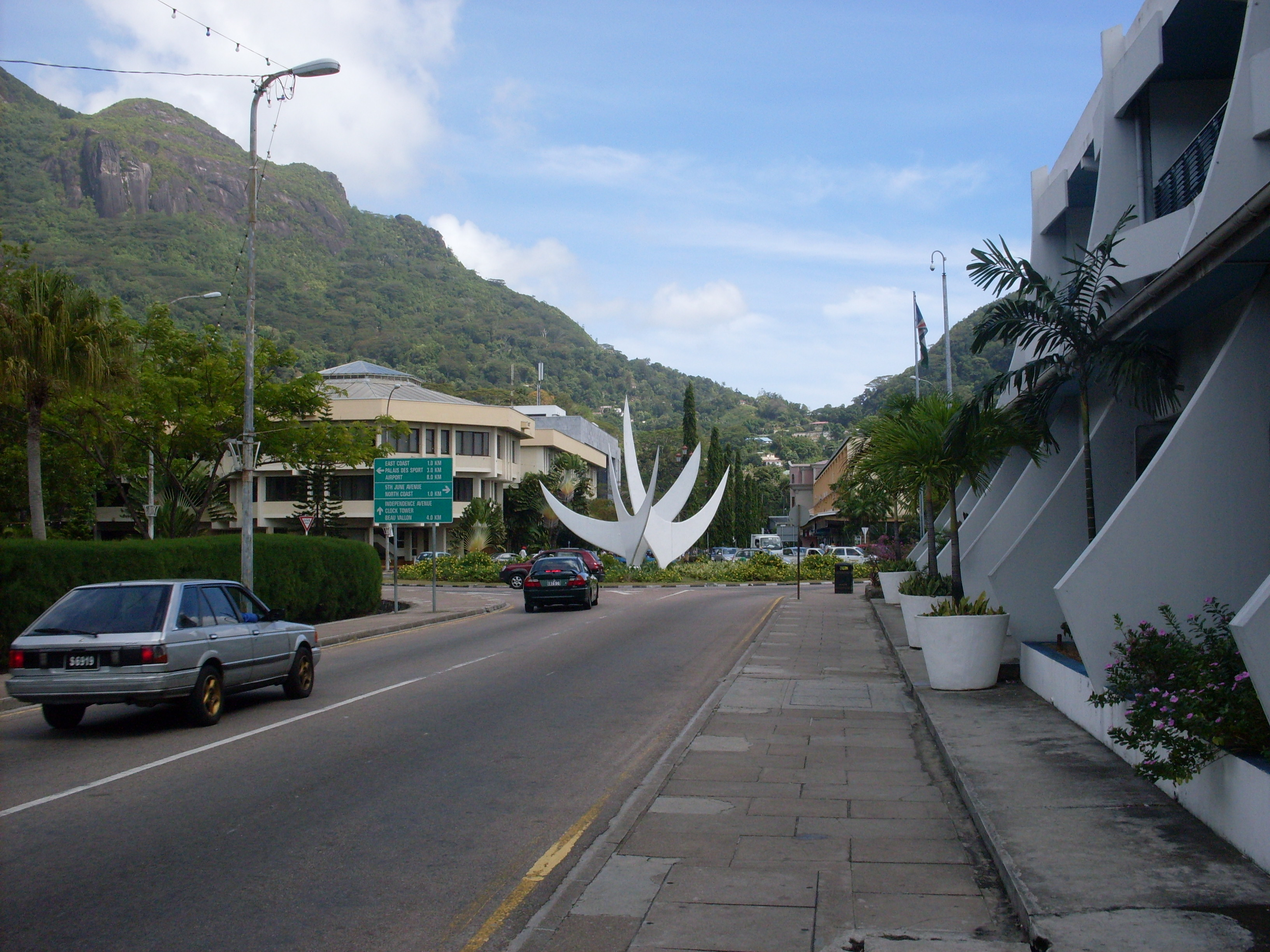 Victoria, Capital of the Seychelles. Bicentennial Monument, view from Flamboyant Ave., Oceangate House (right), Independance House (left)